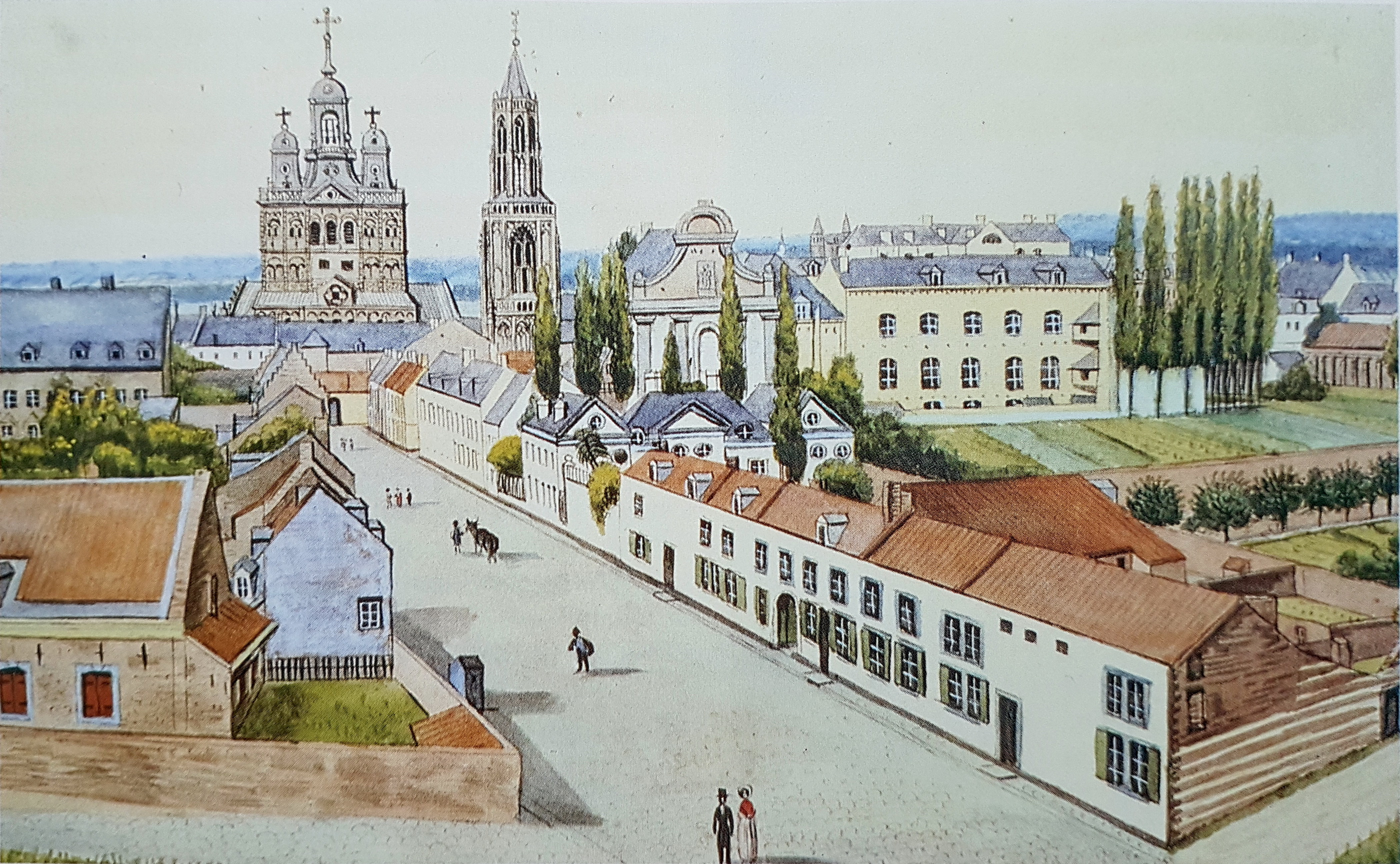 View of Calvariestraat in Maastricht, the Netherlands. From left to right the churches of Saint Servatius, Saint John and the Calvary Chapel. The drawing is by Philippe van Gulpen (1846).